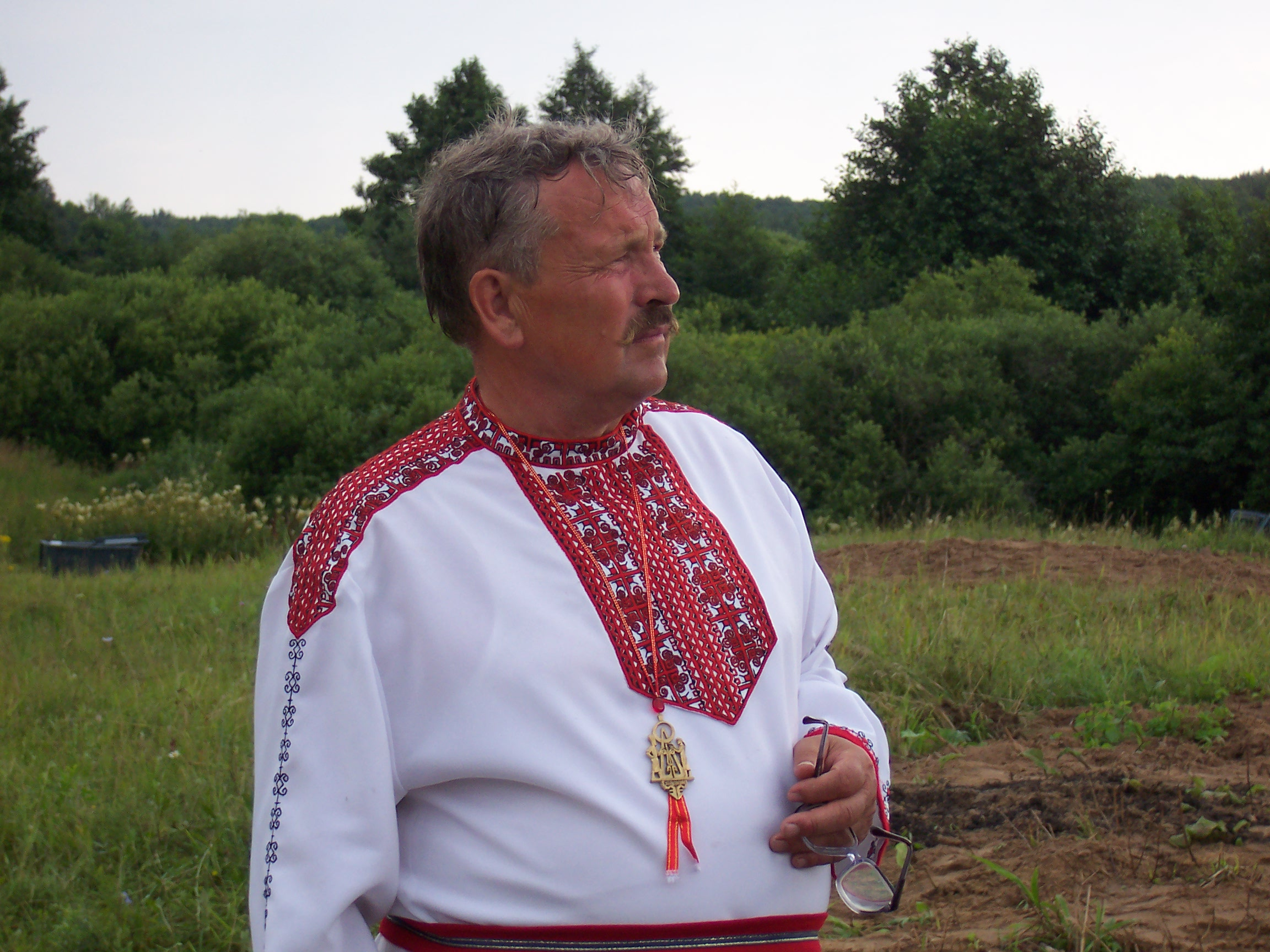 Erzya Inyazor Kshumancyanj Pirgush. Rasken Ozks, 2007.